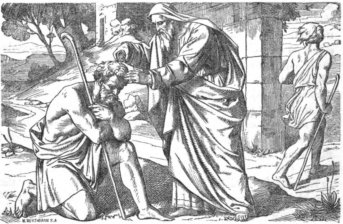 Saul anointed by Samuel.